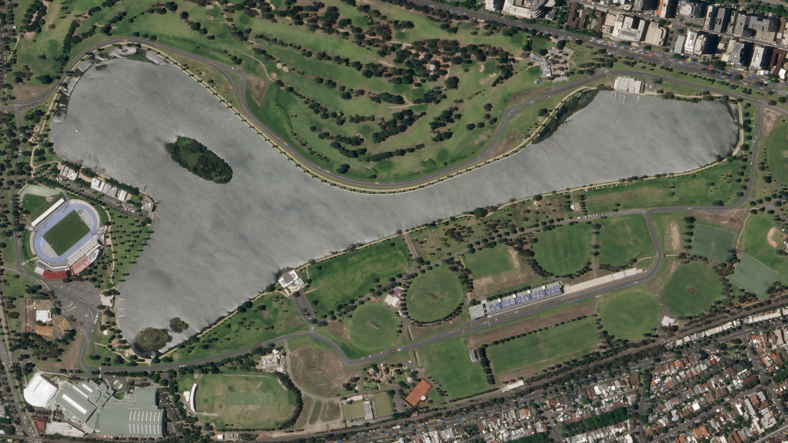 The Melbourne Grand Prix Circuit around Albert Park Lake, located a few kilometres south of central Melbourne and home to the Australian Grand Prix. This picture was taken by a Planet Labs SkySat satellite on Christmas Eve, 2017, when the course was not in use.